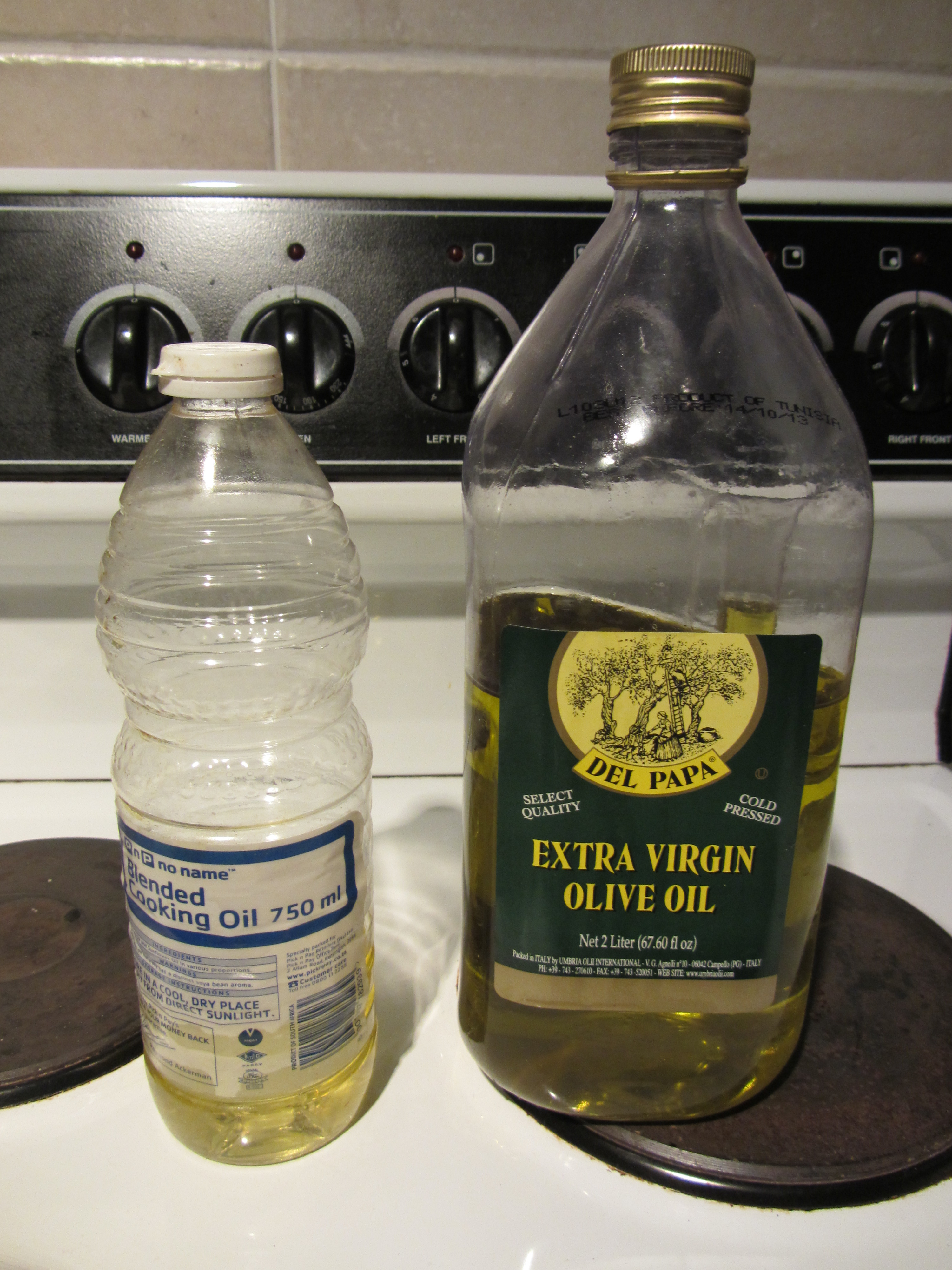 Sunflower oil and olive oil